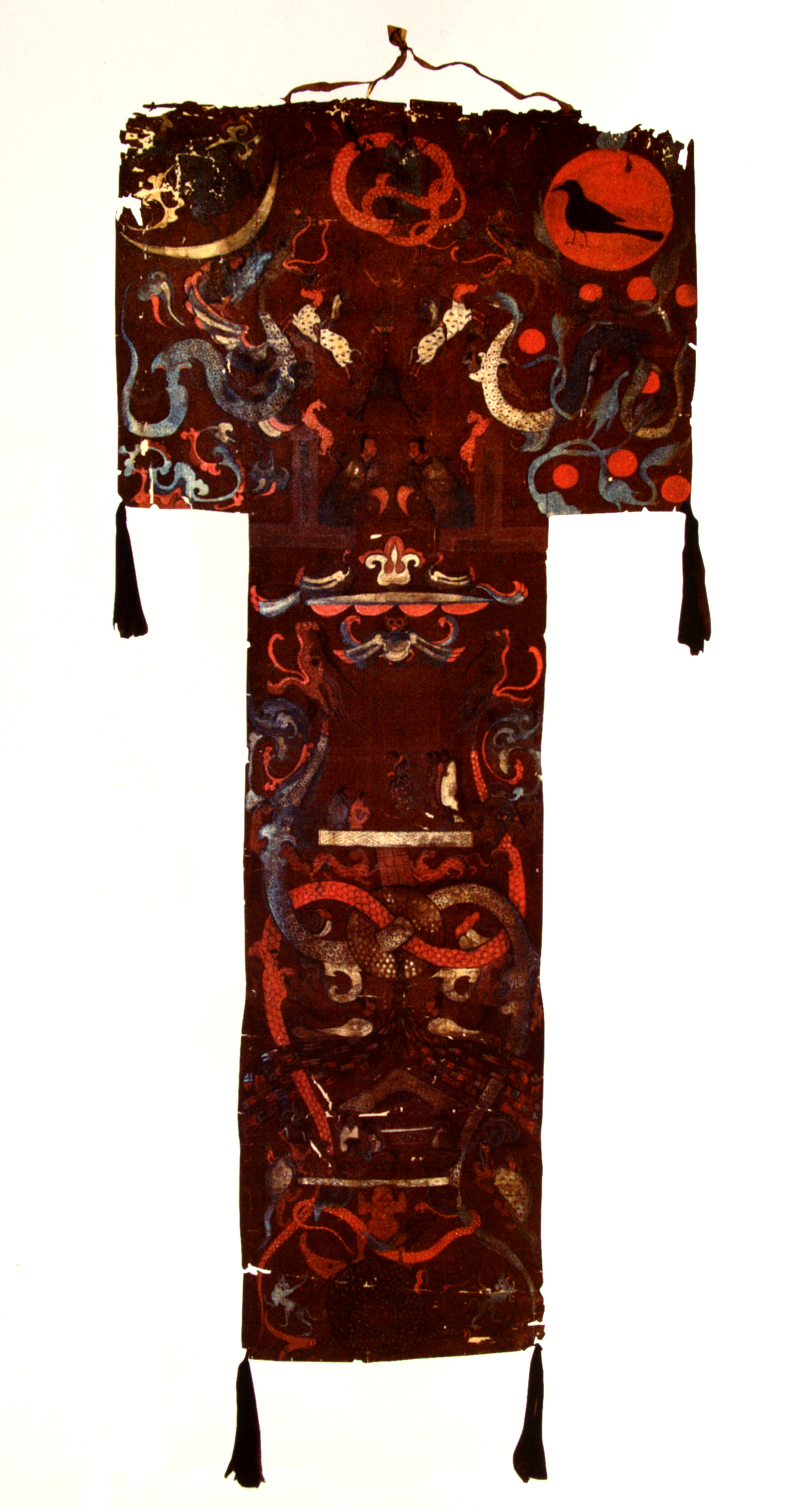 Funeral banner, painting on silk, from the tomb #1 of Mawangdui, Western Han period. Hunan Provincial Museum, Changsha, China. 2.05 x 0.92 m. This 6¾ foot long Western Han painting on silk was found draped over the coffin in the grave of Lady Dai (c. 168 BC) at Mawangdui near Changsha in Hunan province, China. The scenes depicted on it seem to illustrate the journey of the woman's soul. The top section shows the heavenly realm, complete with dragons, leopards, and hybrid creatures. At the corners are the crow that symbolizes the sun and the toad that symbolizes the moon, the pairing of the sun and moon representing the cosmic forces of yin and yang.